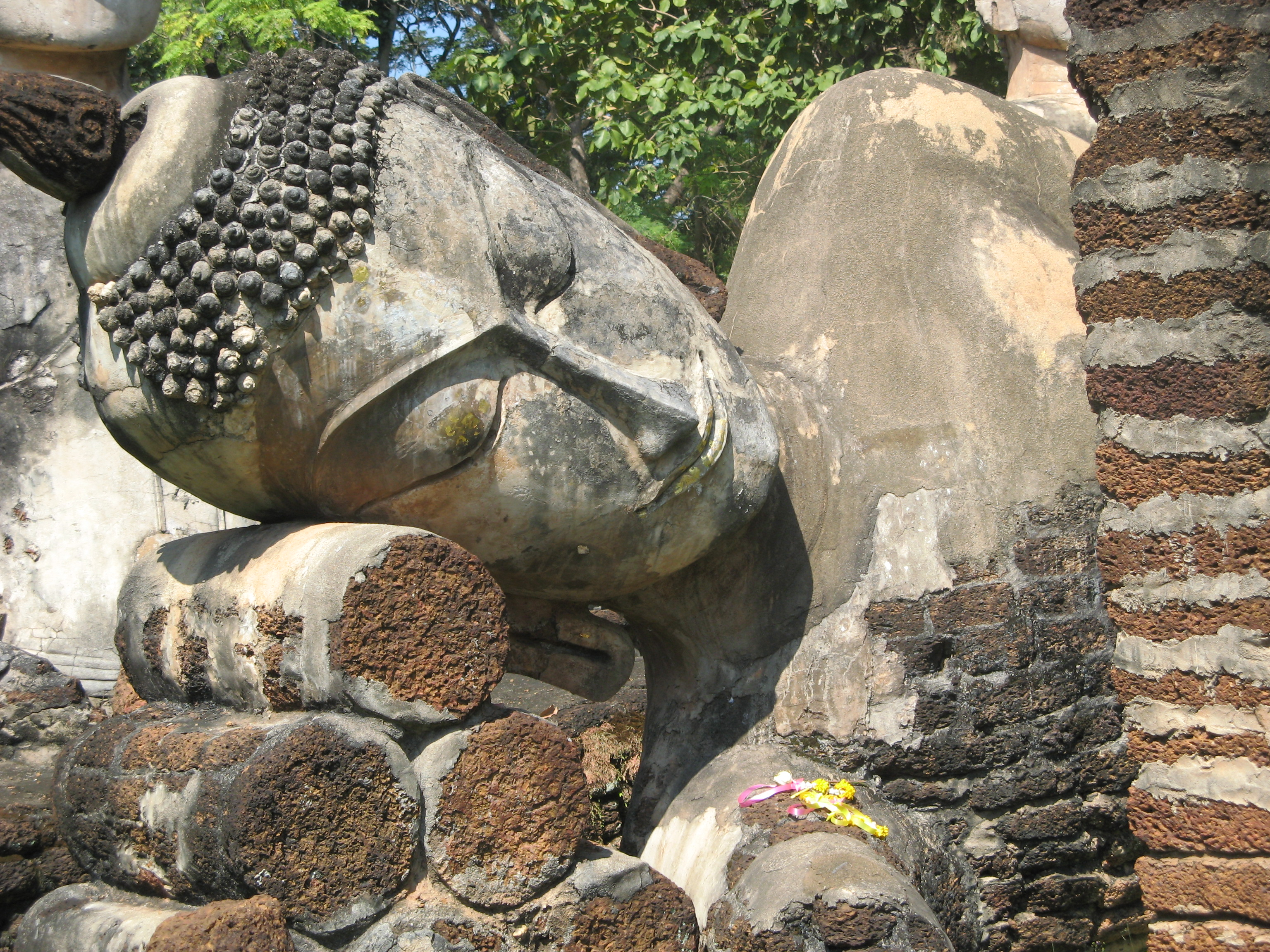 Kamphaeng Phet historical park - detail of File:Kamphaeng Phet04.JPG